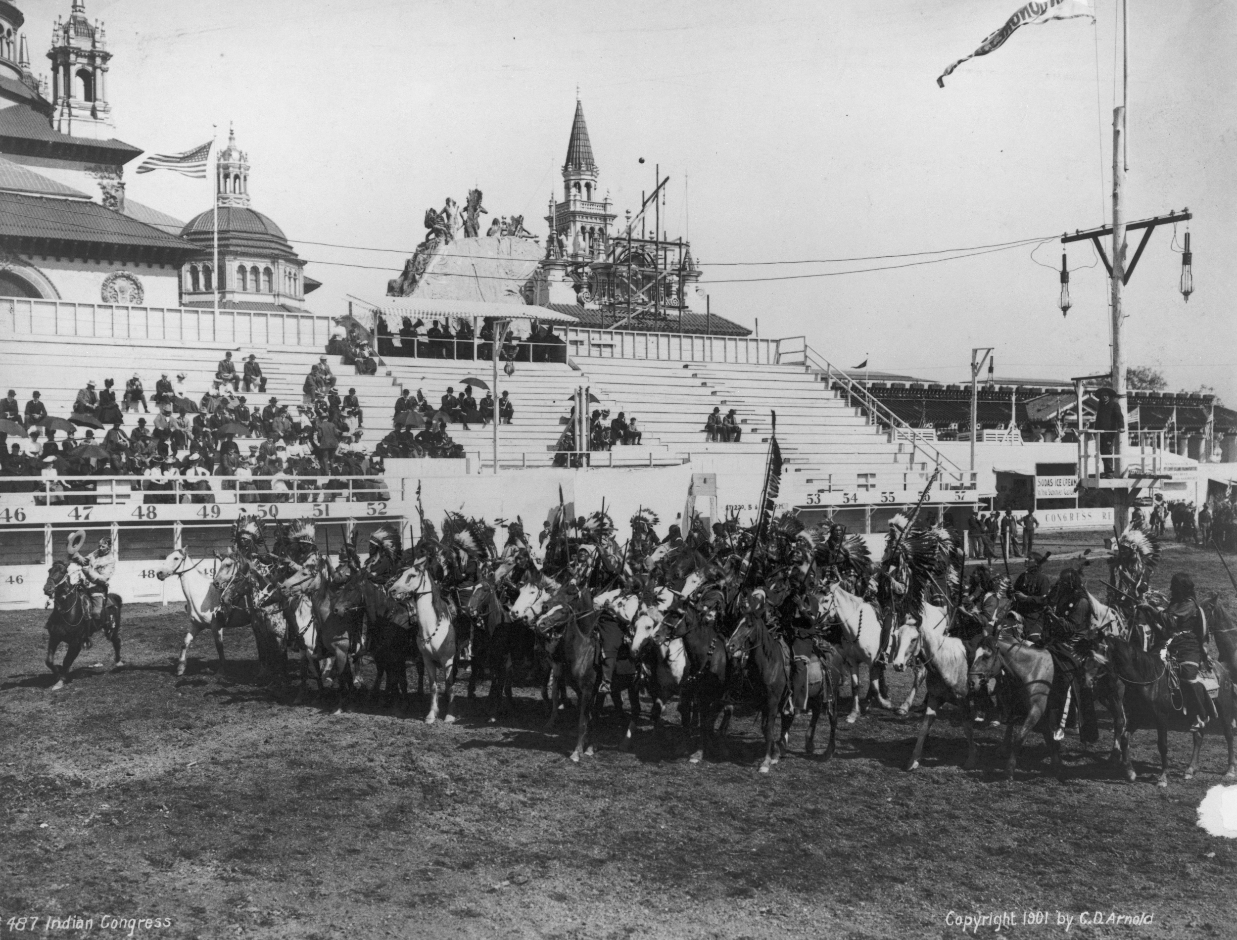 Photographs show large group of Native Americans mounted on horseback during a wild west show at the Pan-American Exhibition, Buffalo, N.Y.